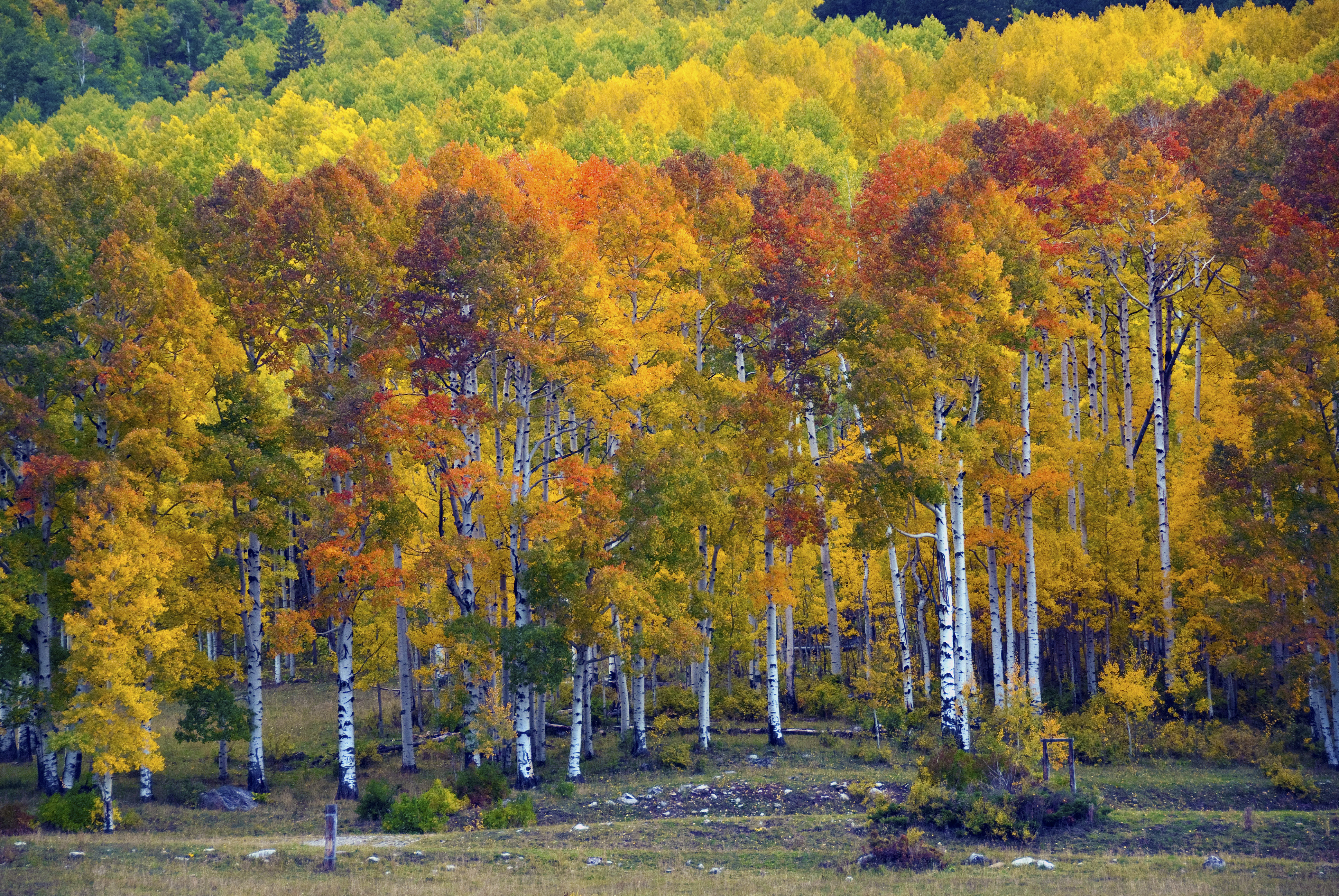 Purgatory, CO Aspens at Sunset, by John Fowler (snowpeak)